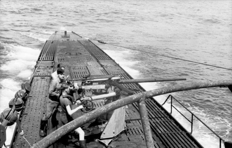 Information added by Wikimedia users.